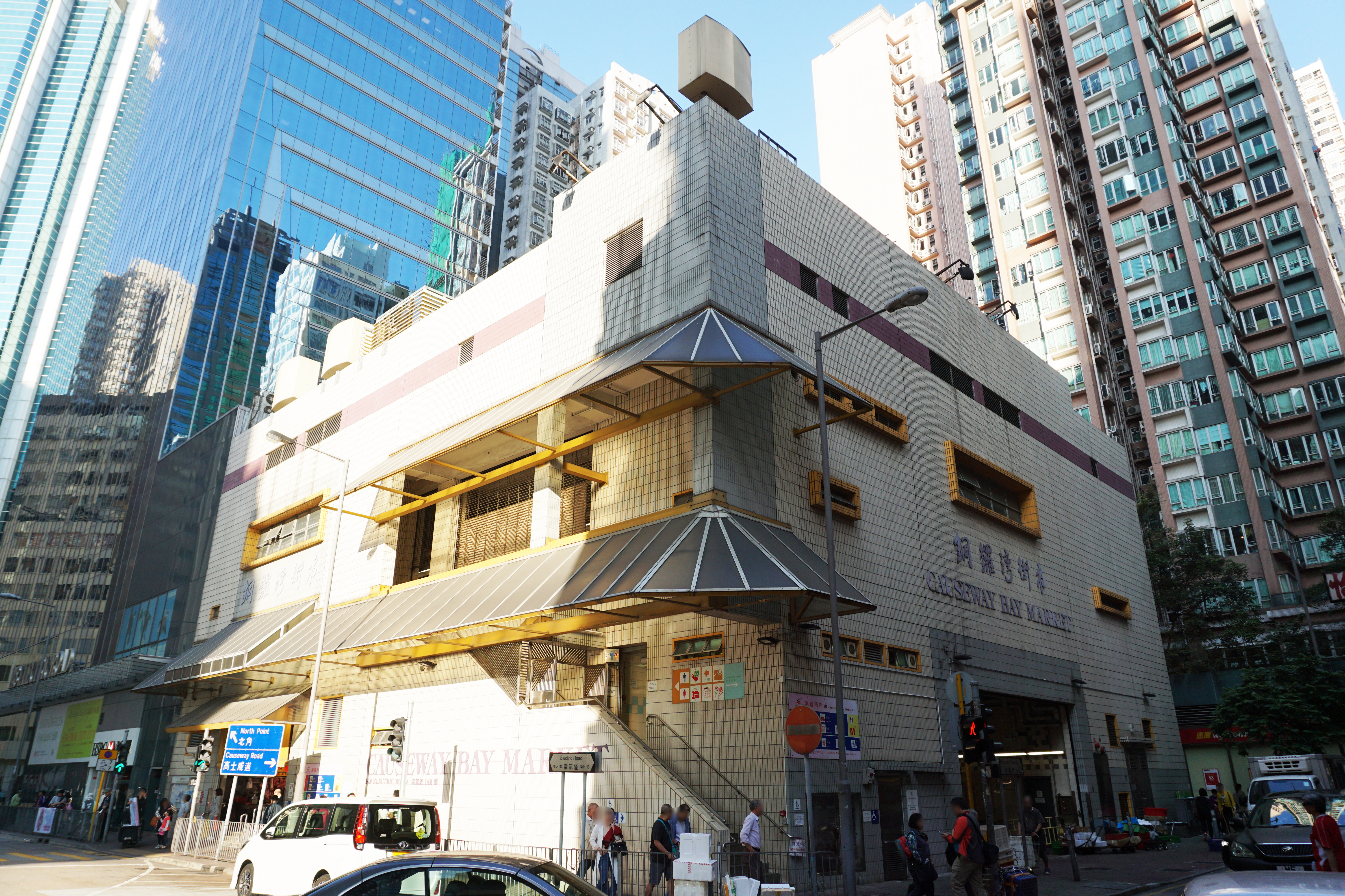 Causeway Bay Market in Tin Hau, Hong Kong.